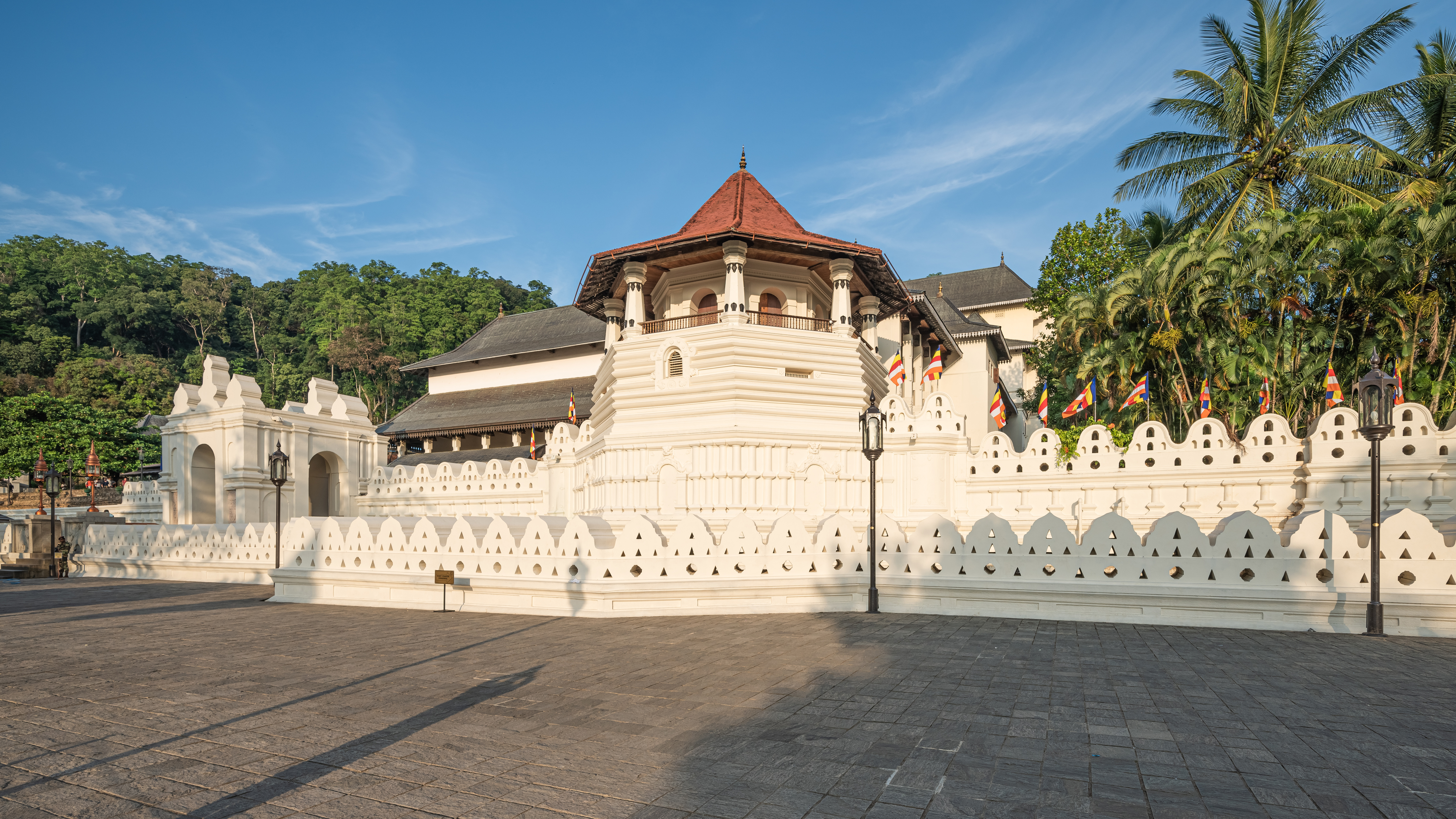 Sacred Tooth Temple in Kandy, Sri Lanka